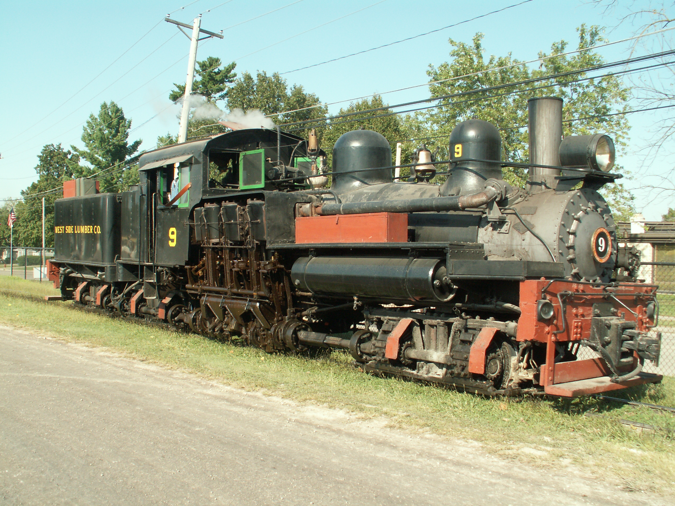 MCRR's three truck class "C" Shay (WSL number 9), under pressure and parked along the east side of McMillan Park at the close of the 2010 Old Thresher's Reunion in Mount Pleasant, Iowa.